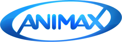 Animax logo from 2016-07-01